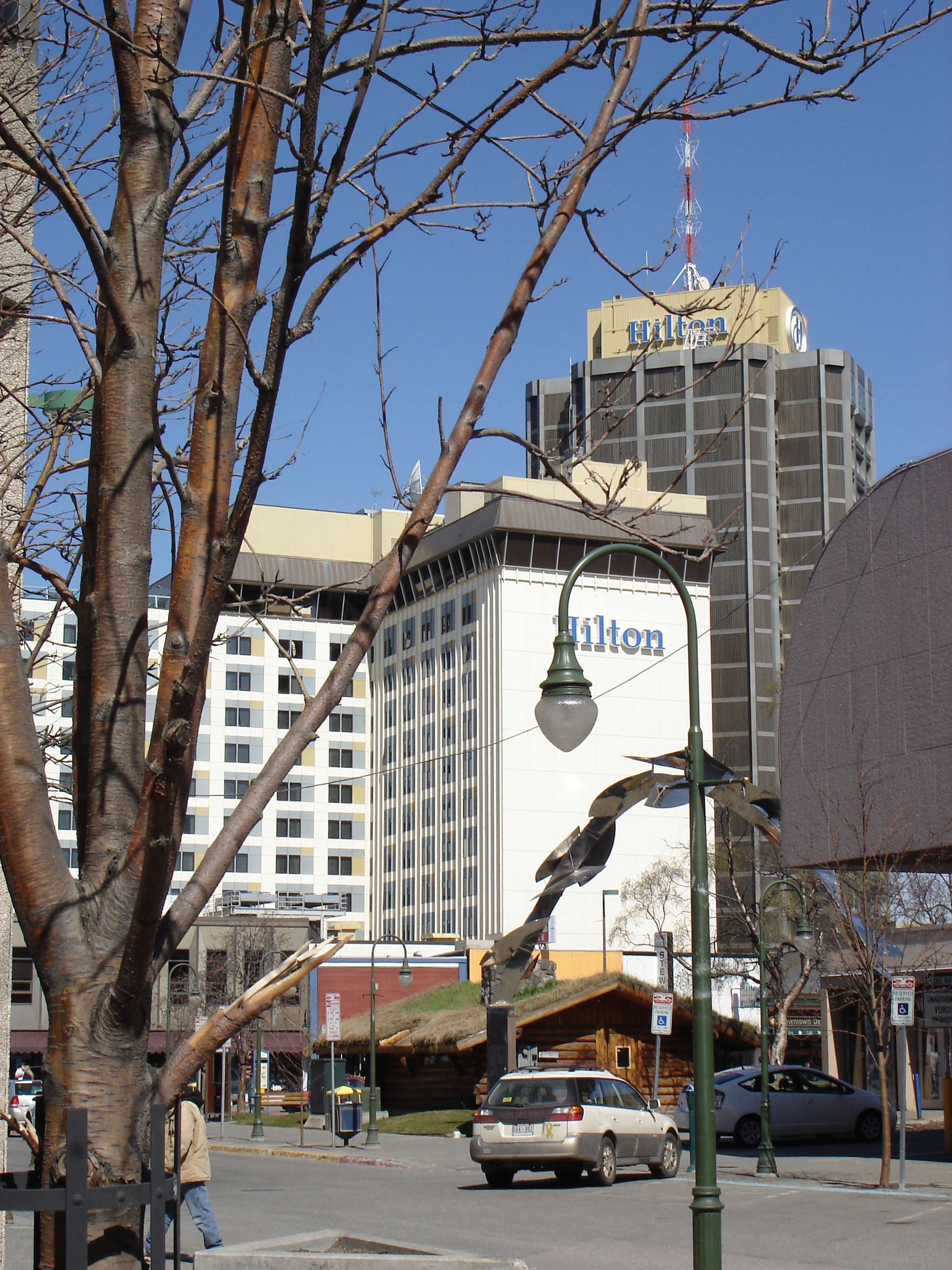 Street view in Downtown Anchorage, facing northeast from "F" Street.